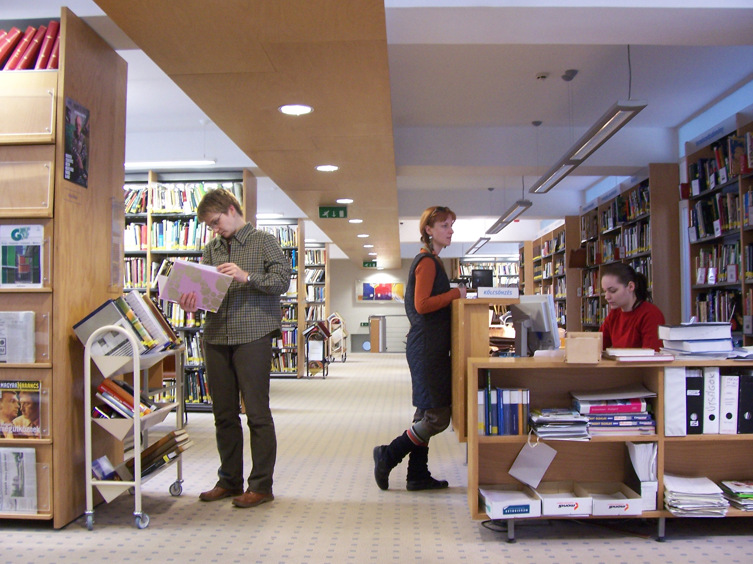 Moholy-Nagy University of Art and Design